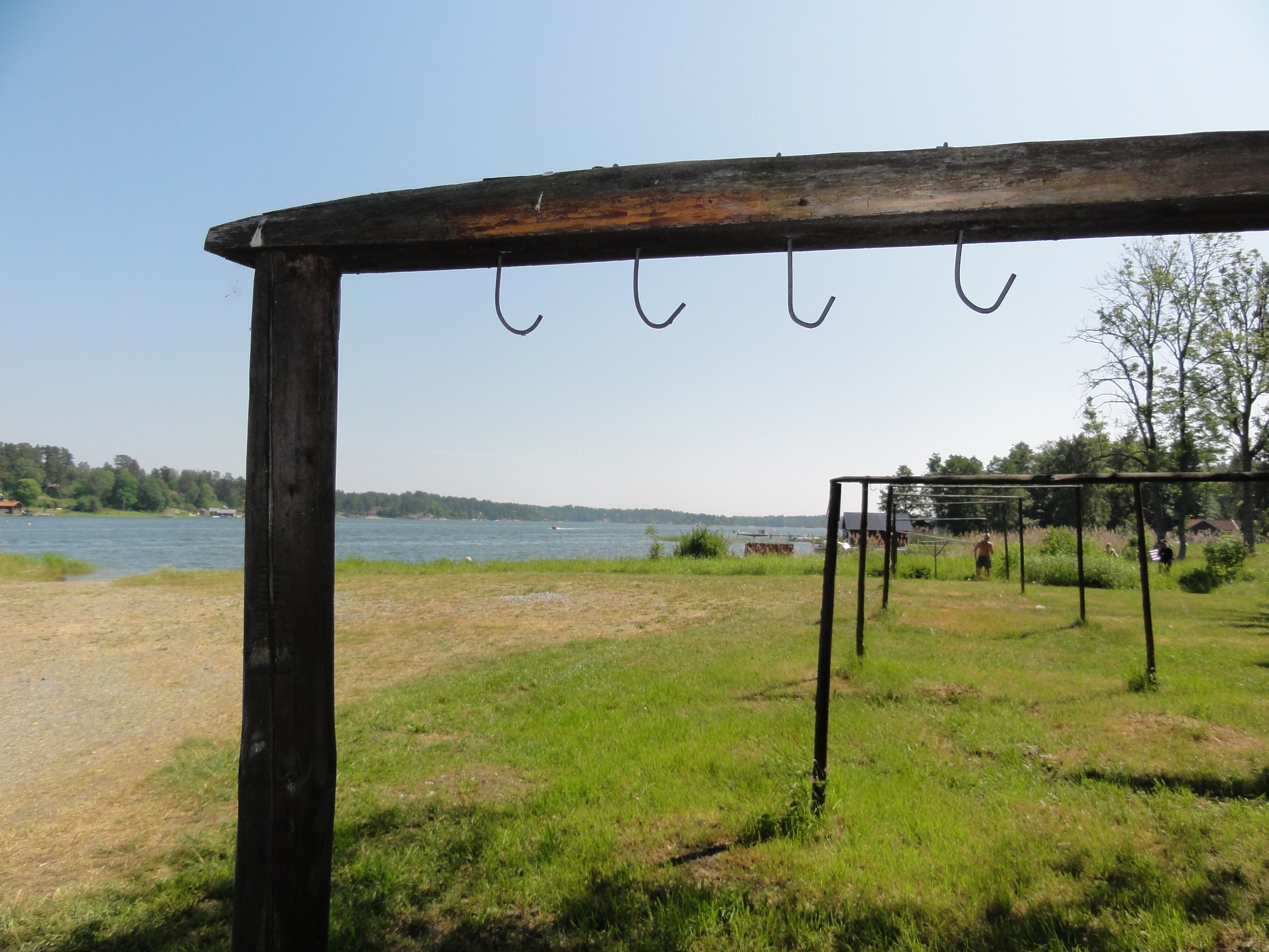 Hangers for fish nets to dry Unknown